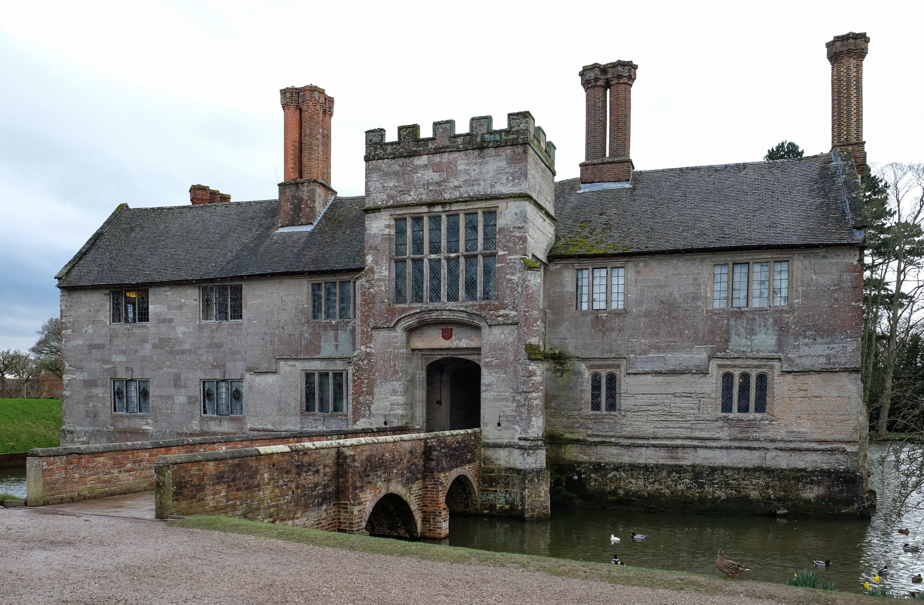 Baddesley Clinton moated manor house from the north.